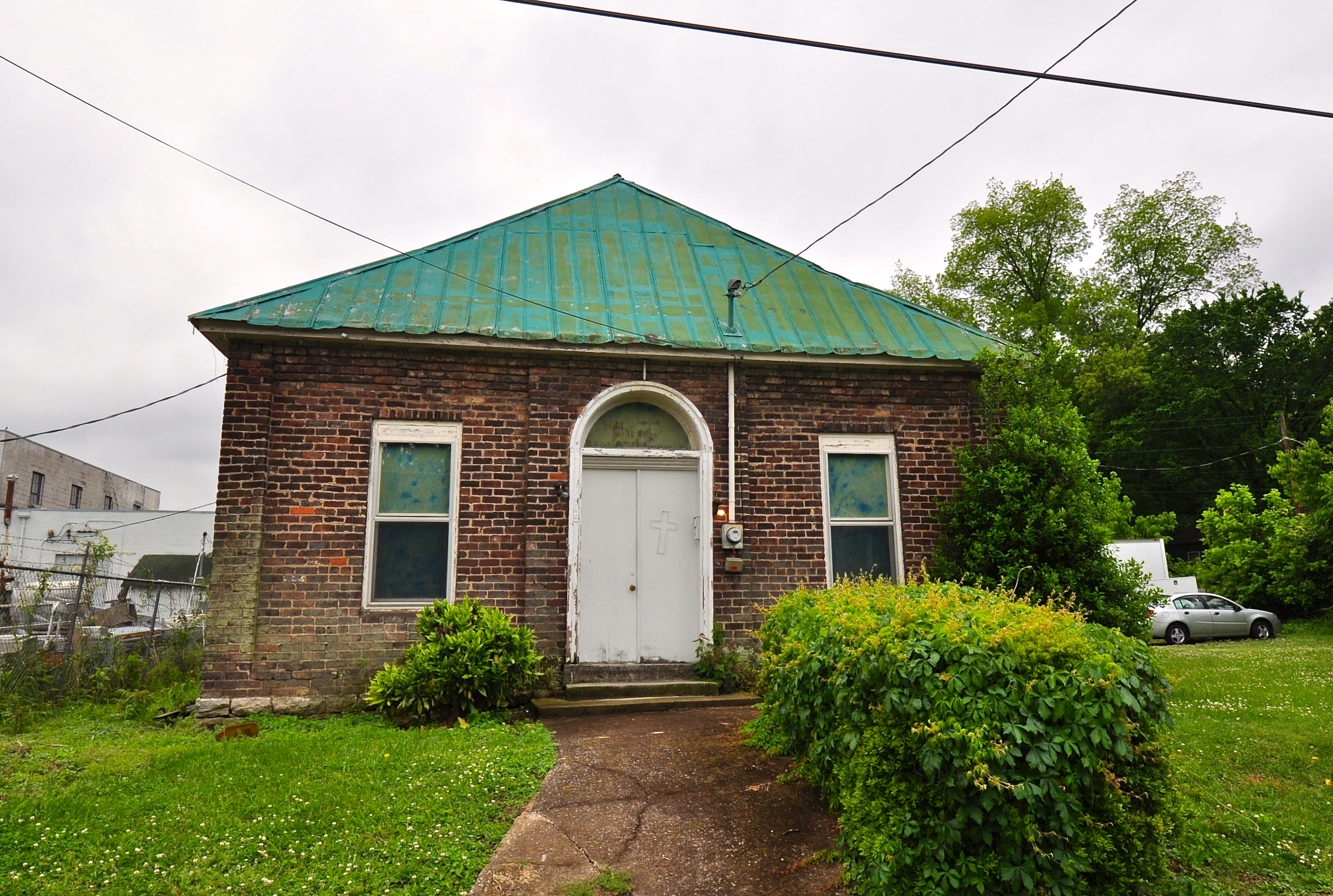 Located at Pulaski, Giles County, Tennessee. NRHP #06000698, Listed August 09, 2006.